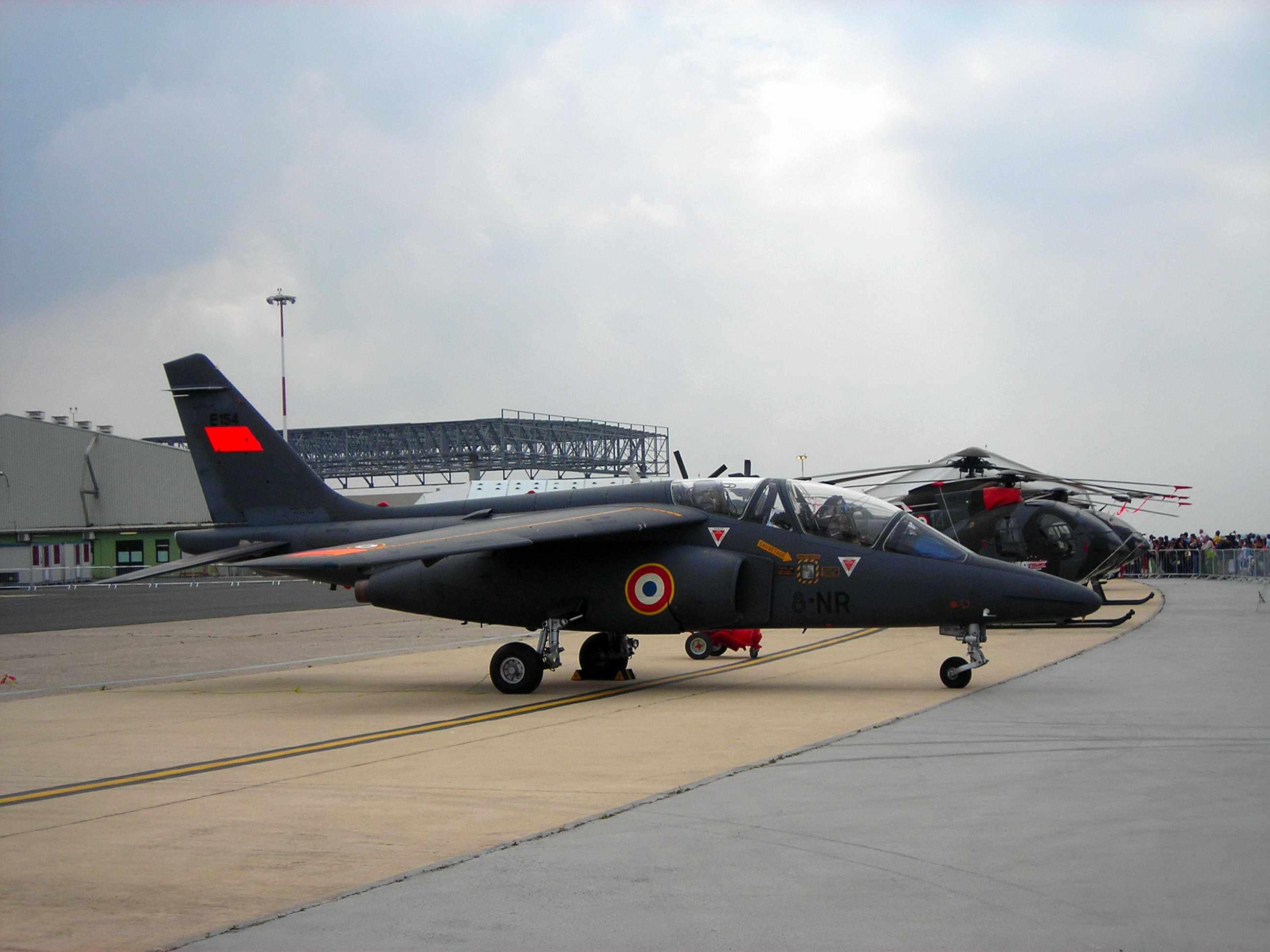 Picture taken during "Giornata Azzurra" 2007 (Italian Air Force airshow) at Pratica di Mare AFB, Italy. Alpha Jet of Armée de l'Air